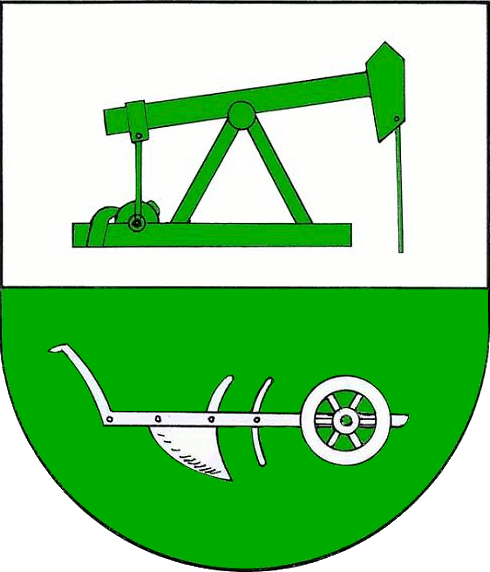 Coat of arms of the municipality Lieth in Schleswig-Holstein, Germany.